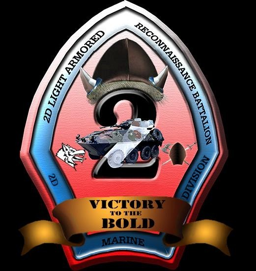 The 2DLAR Barbarian Logo, used only for a short period.